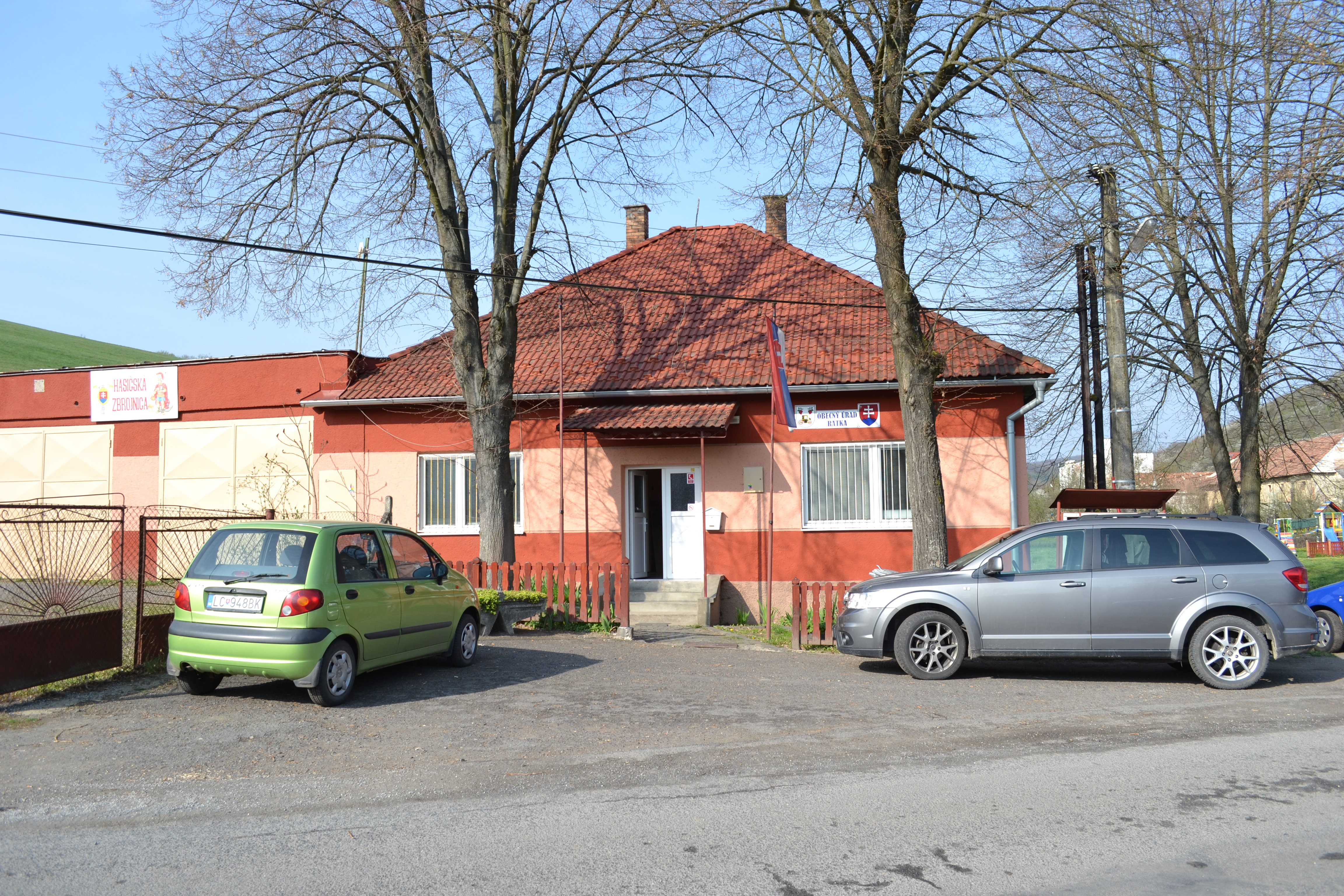 Municipal office in RatkaSlovenčina: Obecný úrad v Ratke